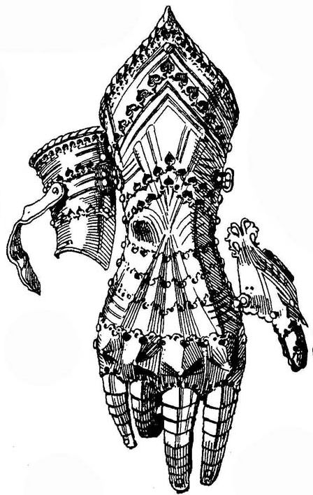 Gauntlet